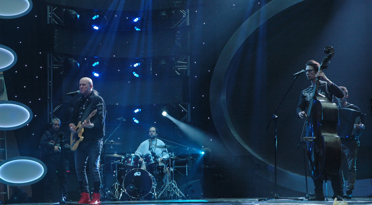 Polish band Taraka during rehearsal for Polish National Final of ESC 2016